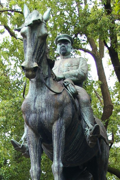 Stature of Field Marshall Iwao Oyama in Kudan, Tokyo.